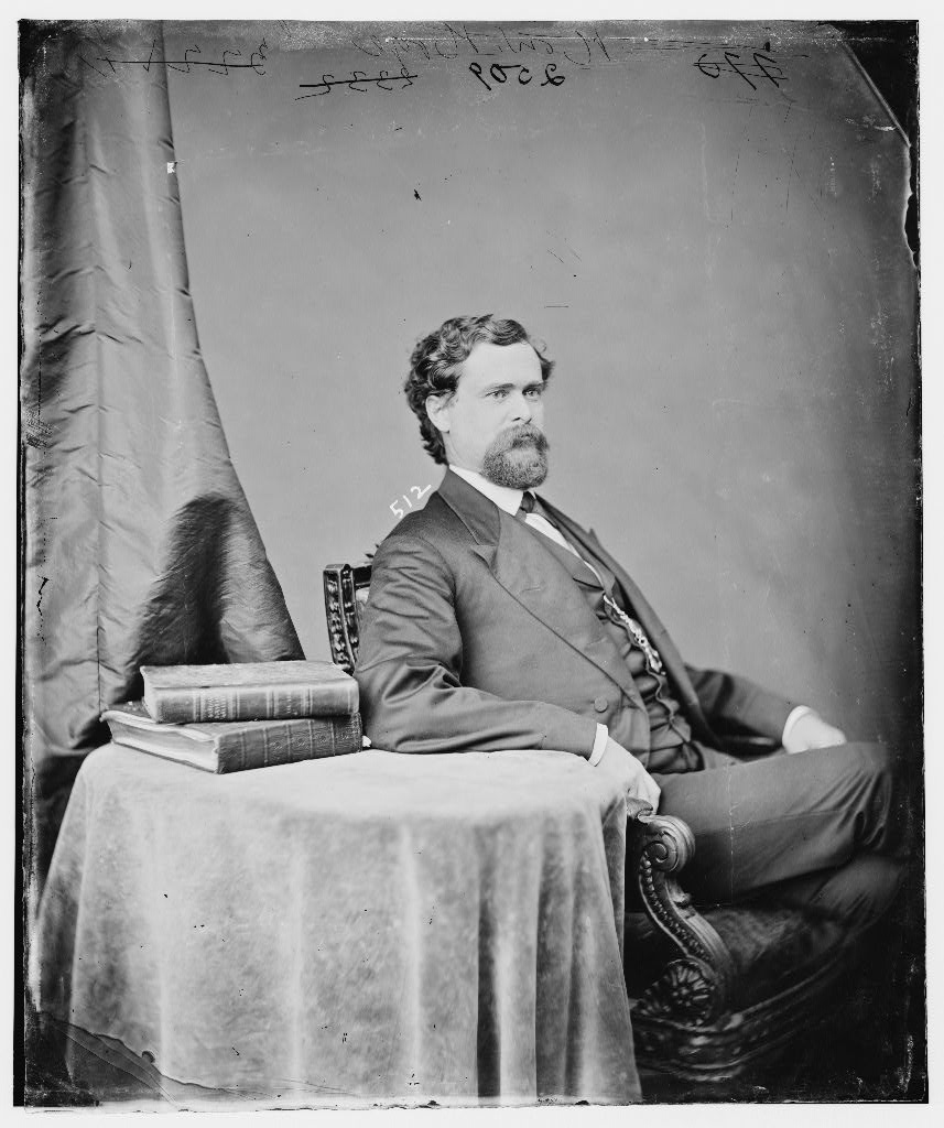 Solomon Lafayette Hoge. Library of Congress description: "Hoge, Hon. Solomon Lafayette of S.C.".